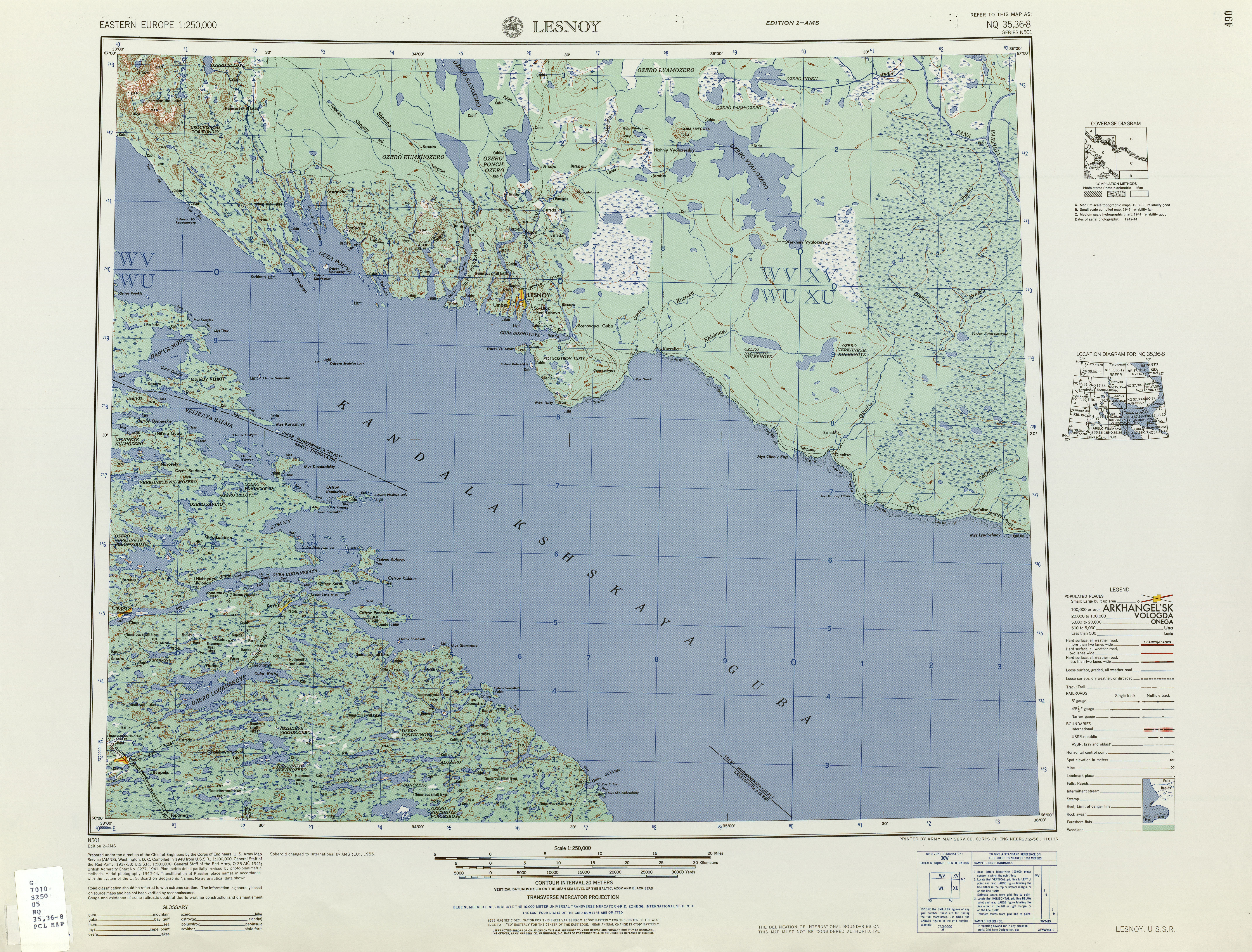 List from Eastern Europe AMS Topographic Maps. Series N501, U.S. Army Map Service, 1954